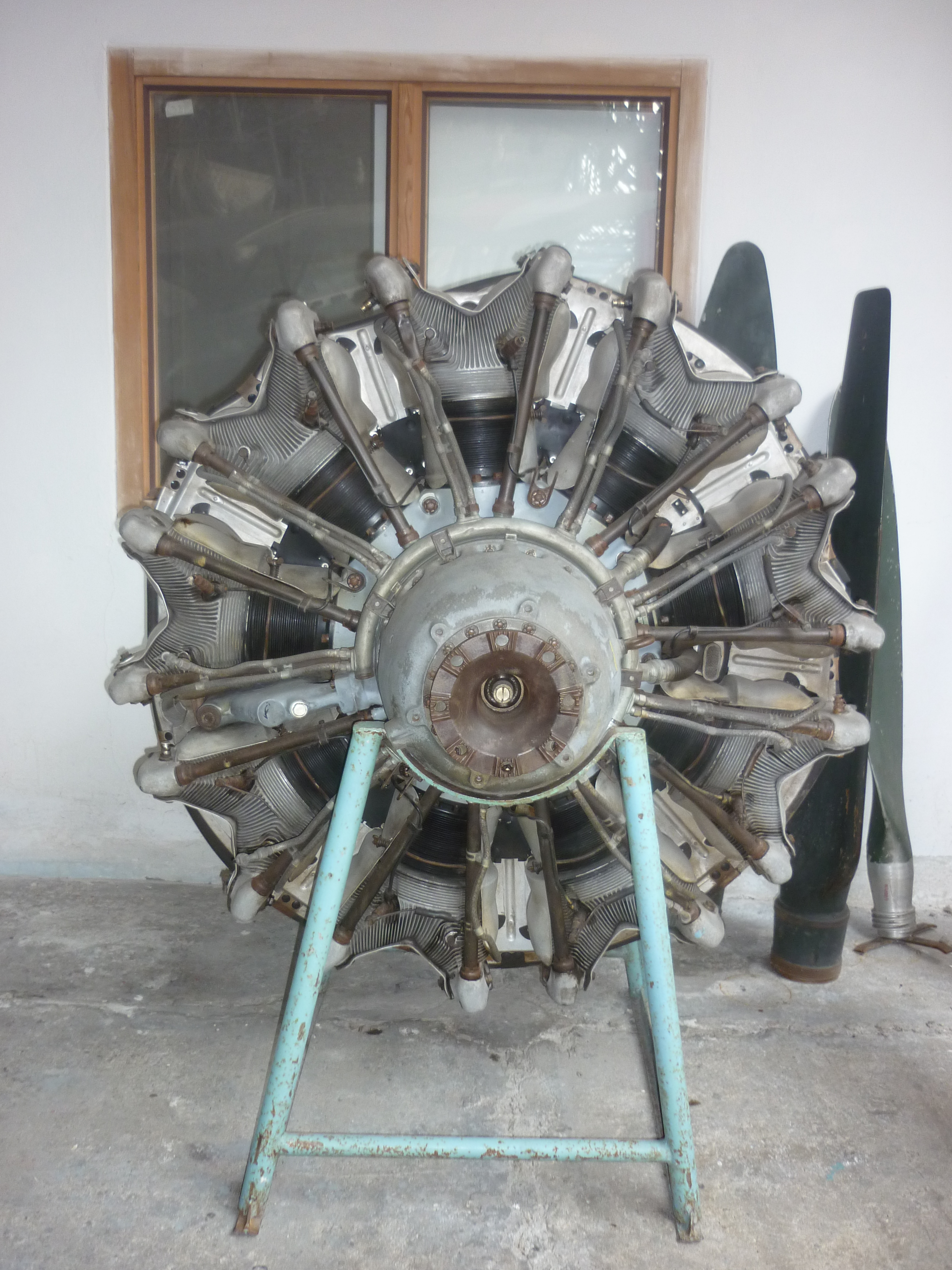 Bramo 323 radial engine